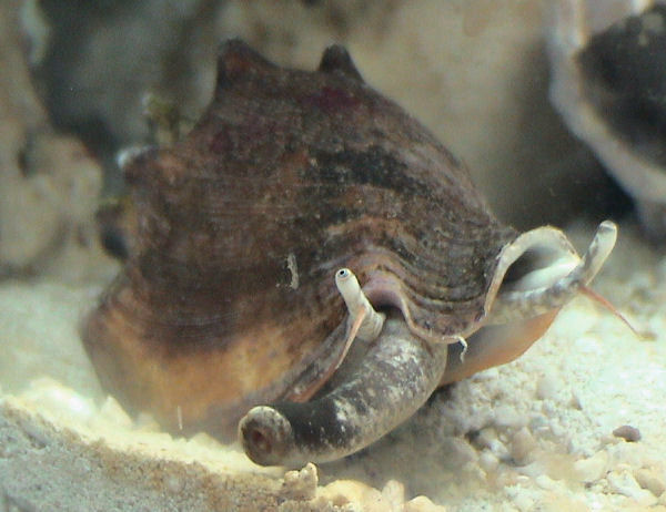 Photographer: LA Dawson Florida Fighting Conch, Strombus alatus